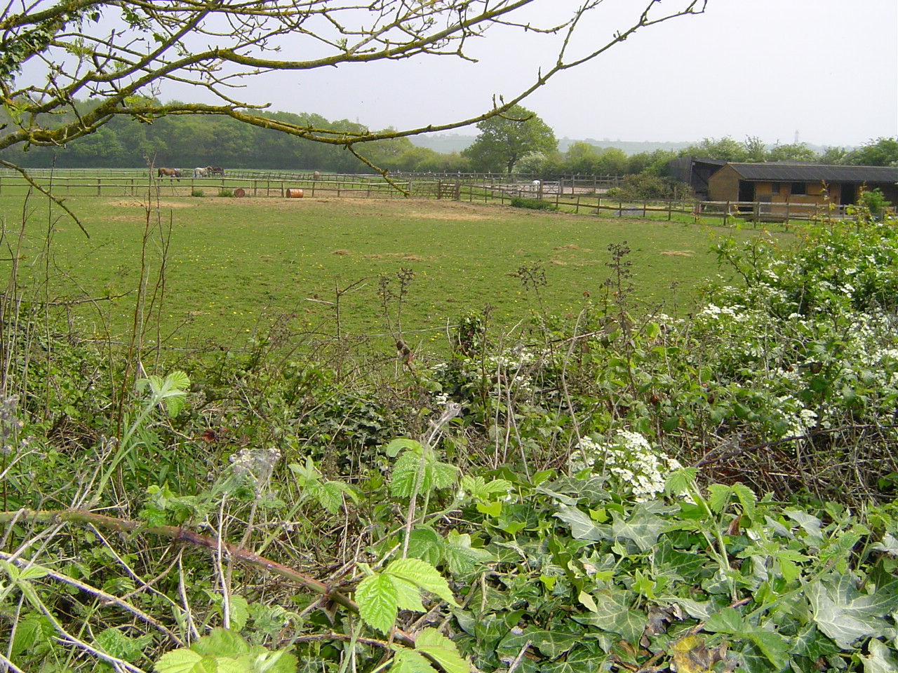 Horsiculture at Henfield